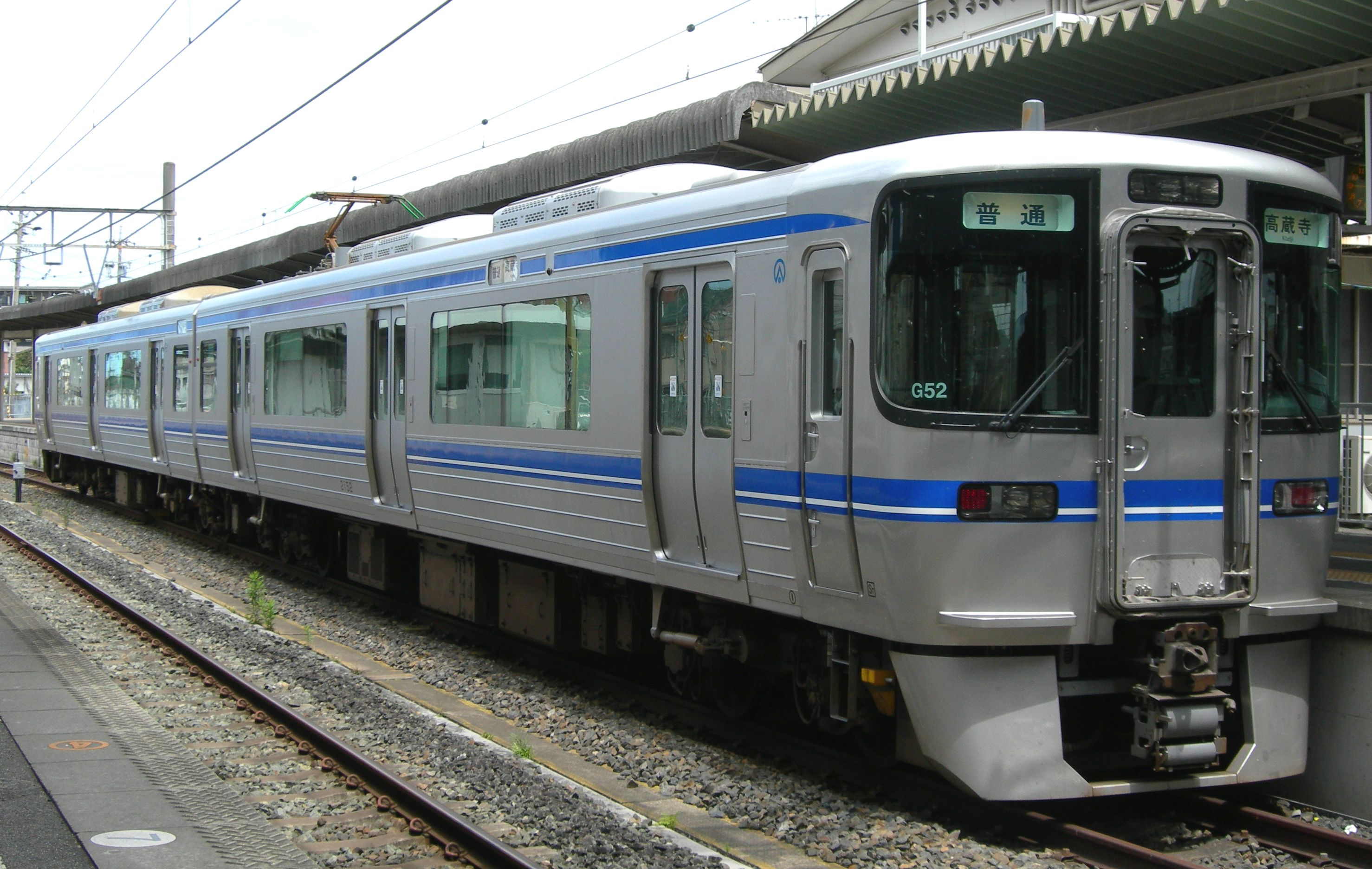 Aichi Loop Railway 2000 series EMU set G52 at Okazaki Station